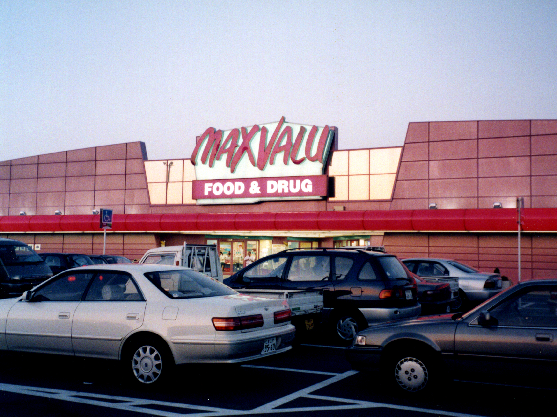 MAXVALU Geino,Geino Tsu-City Mie Japan.